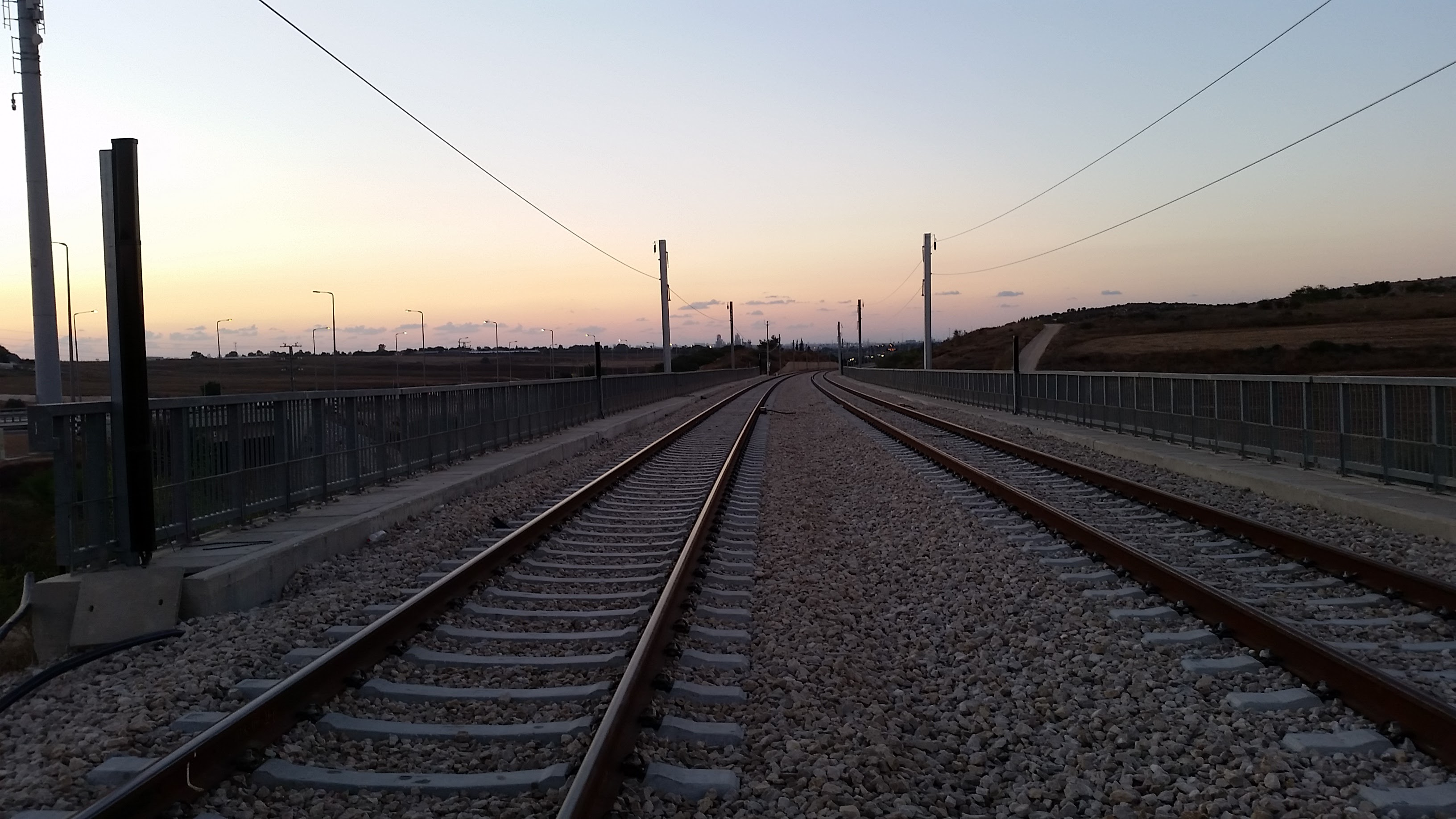 Bridge 4 on new Jerusalem - Tel Aviv Railway Line